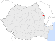 Location of Huși in Romania.